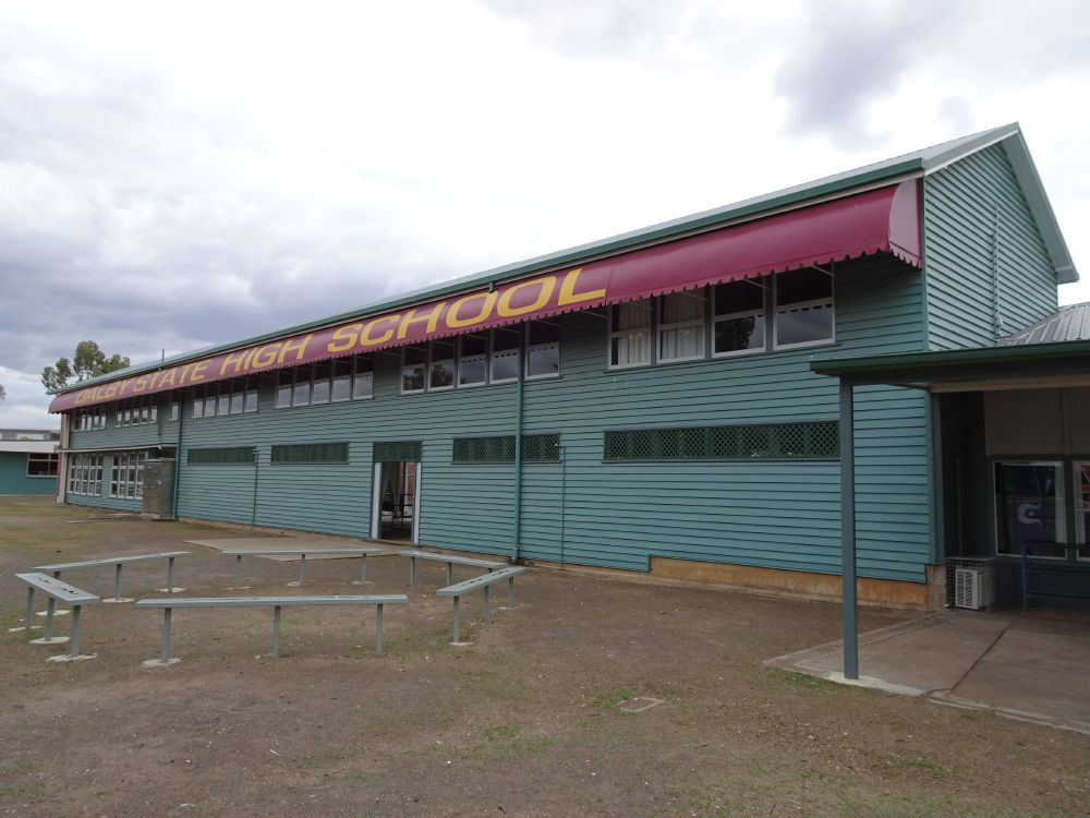 650036. Block C, south side looking northwest